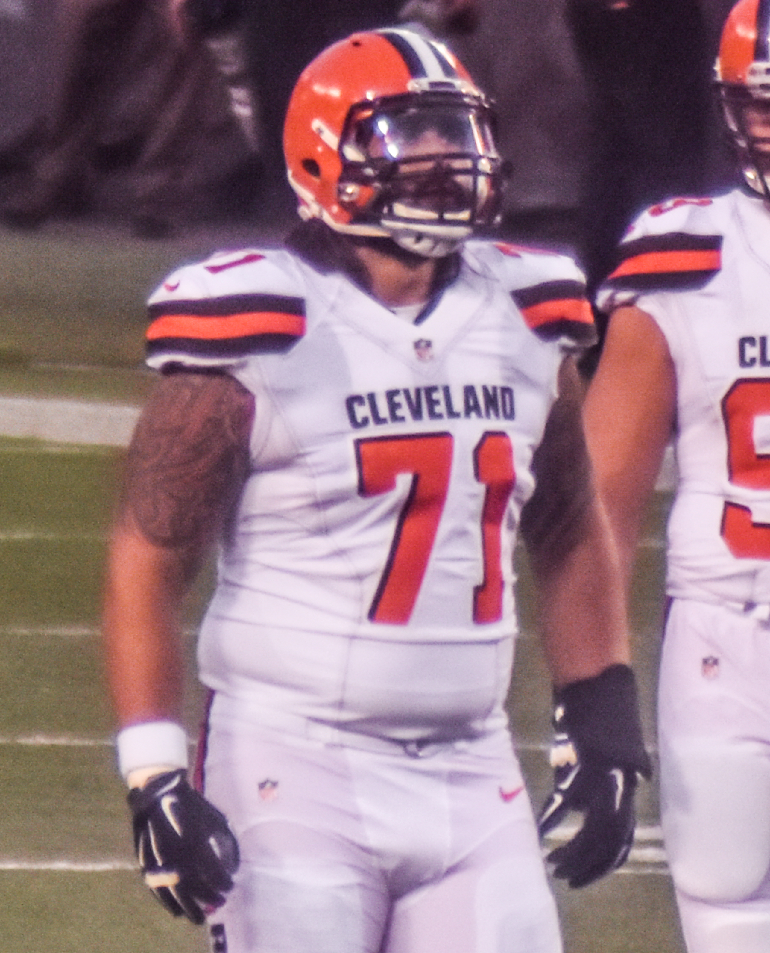 From left: Justin Gilbert, Nick Hayden and Paul Kruger, 2016 NFL preseason